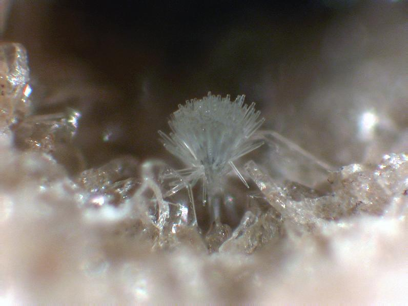 Colorless Jeremejevite needles (Length: ca. 0.1 mm) - Locality: Wannenköpfe, Ochtendung, Eifel region, Germany